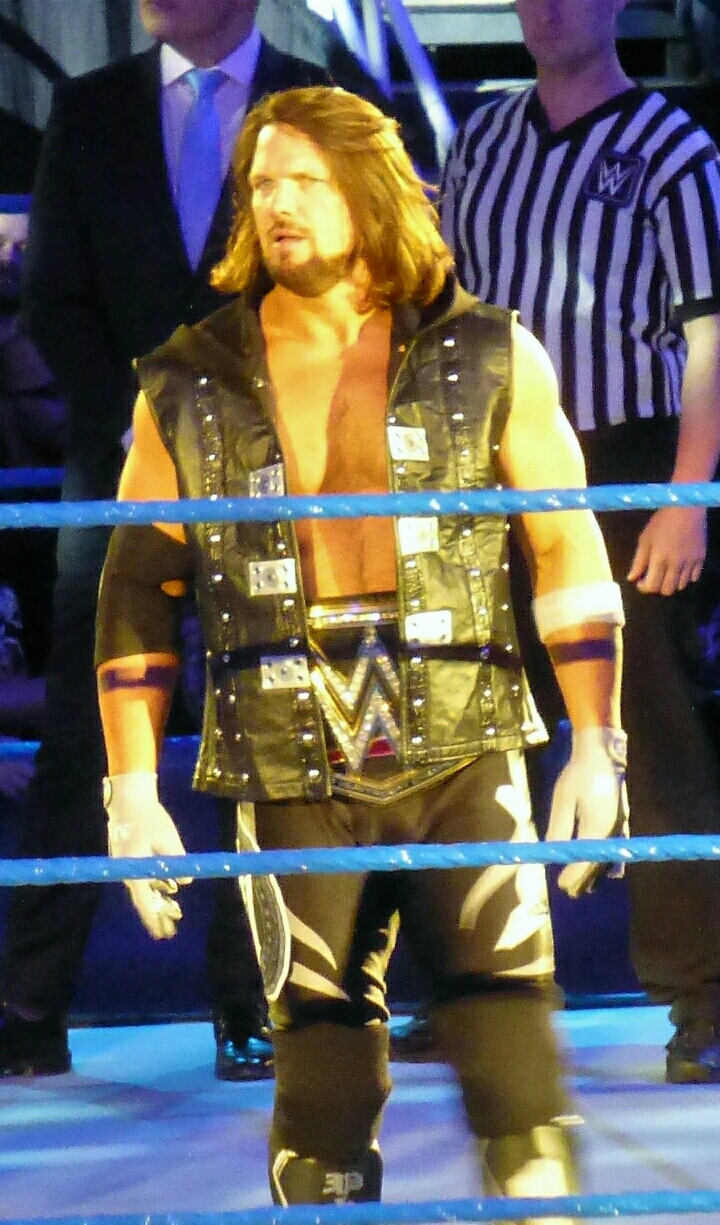 AJ Styles styling